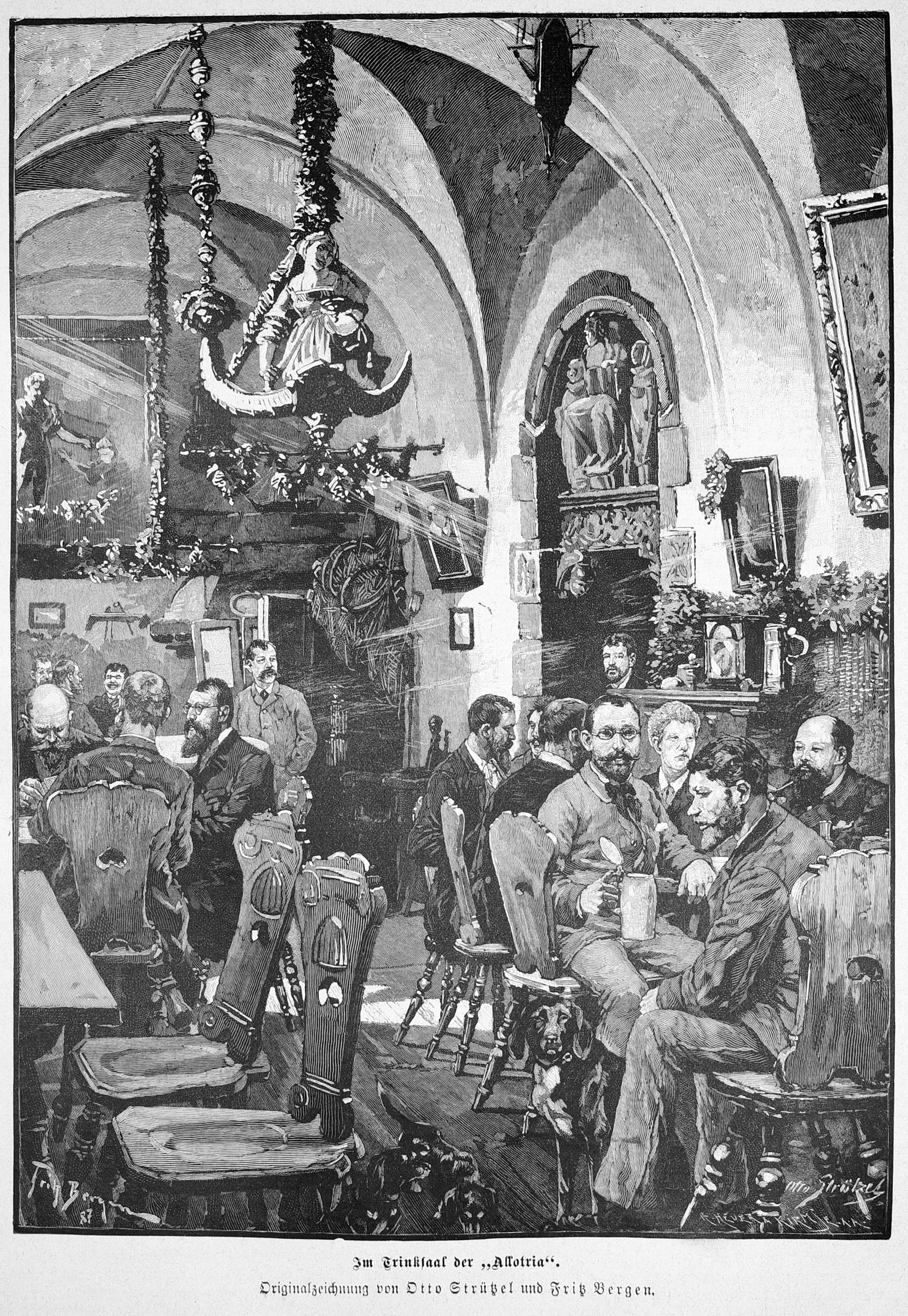 caption: "Im Trinksaal der „Allotria“. Originalzeichnung von Otto Strützel und Fritz Bergen."